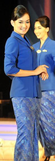 Sky-High Fashion, The new look for Garuda Indonesia cabin crew. The new in-flight uniform for Garuda Indonesia stewardesses is inspired by the traditional kebaya with batik sarongs, the national costumes of Indonesia. The uniform of Garuda Indonesia flight attendants is more authentic modern interpretations of batik and kebaya, the kebaya is designed in simple yet classic kartini style derived from 19th century kebaya of Javanese noblewomen. The kebaya made from fire-proof cotton-polyester fabrics, with batik sarong in parang or lereng gondosuli motif, which also incorporate garuda's wing motif and small dots represent jasmine. The batik motif symbolizes the ‘Fragrant Ray of Life’ and endows the wearer with elegance. The uniform, batik with a matching kebaya consists of three colors; aqua green which implies sophistication, the tropics and freshness; orange to suggest warmth, friendliness and energy; and blue which symbolizes dependability, trustworthiness, immortality and tranquility.